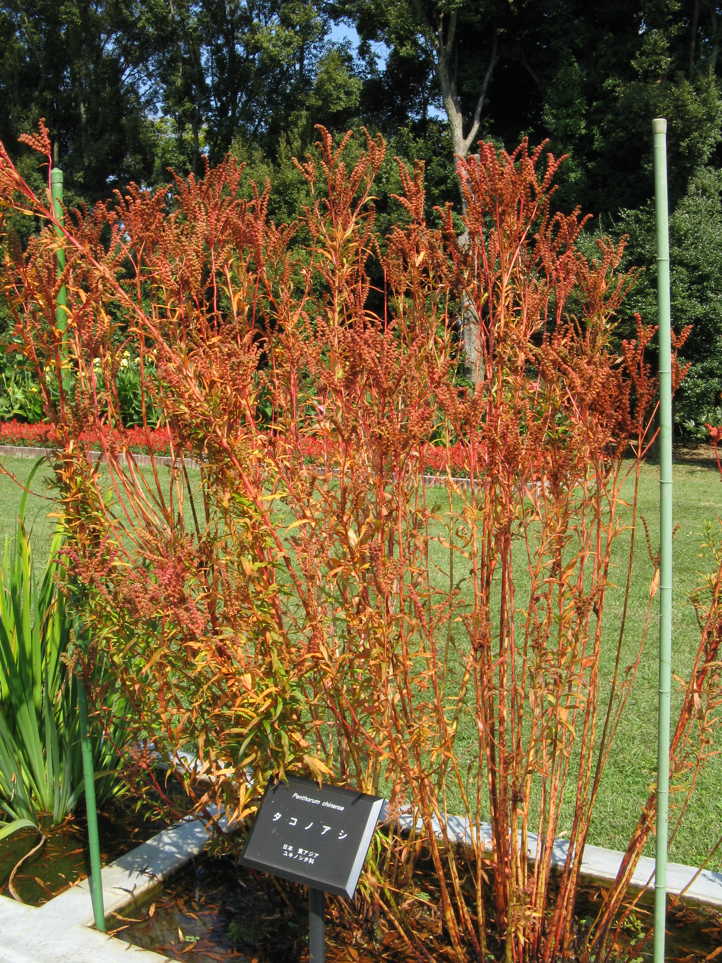 Scientific name Penthorum chinense